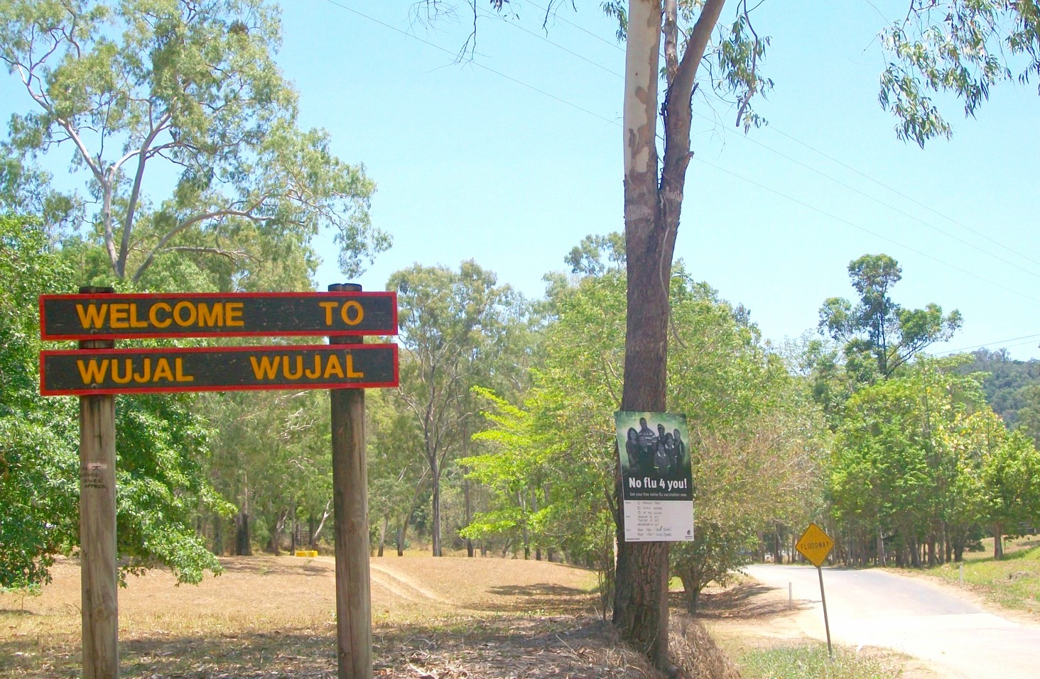 Welcome sign in Wujal Wujal.